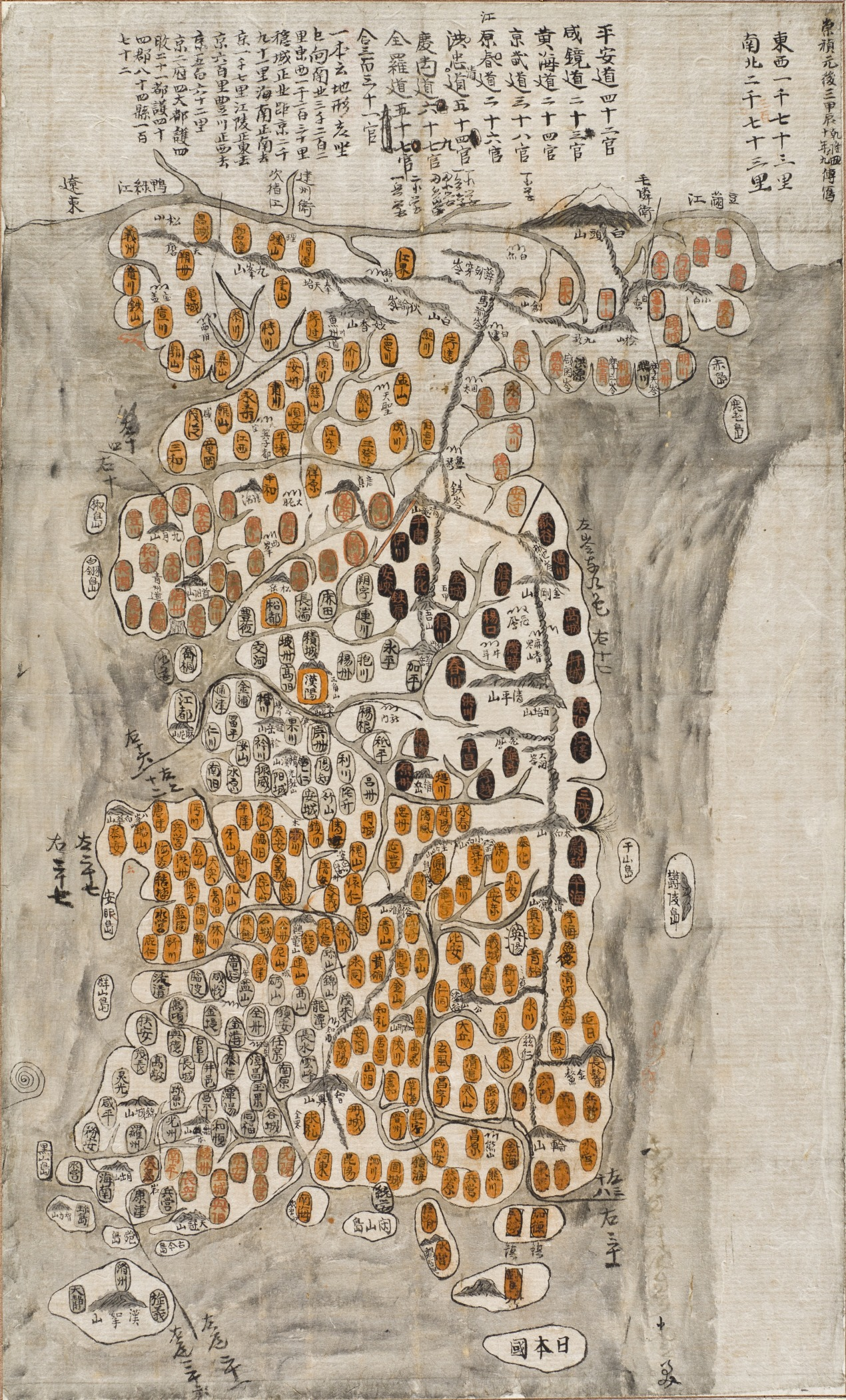 Korea, Korean, 1784, copy after a map dated 1628 Drawings Ink and color on paper, mounted as a panel Image: 21 1/4 x 12 7/8 in. (53.98 x 32.7 cm); Mount: 27 3/4 x 19 1/2 x 3/4 in. (70.49 x 49.53 x 1.91 cm) Gift of Robert W. Moore (M.2008.258) Korean Art